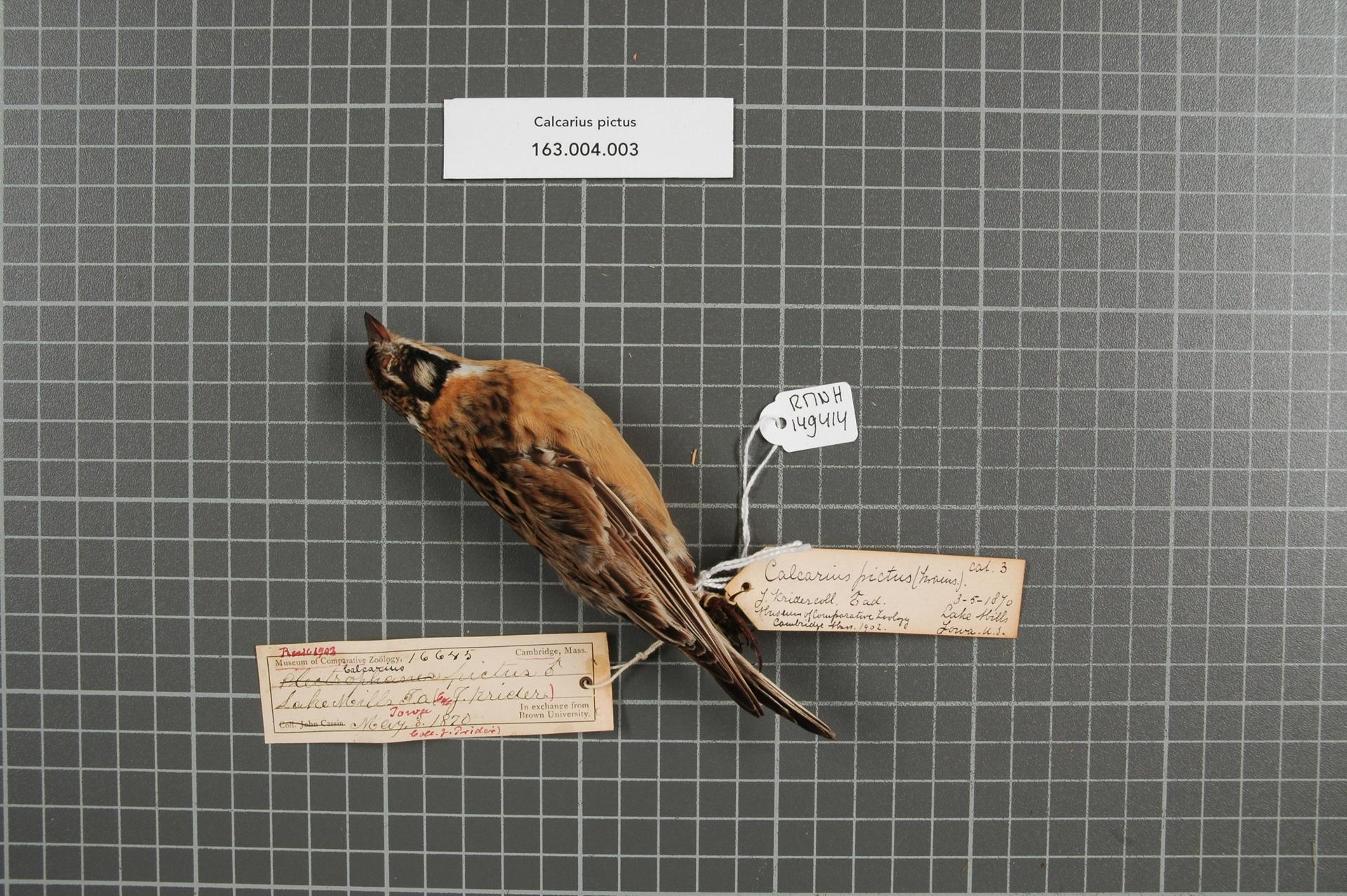 Prescarius pictus (Swainson, 1832)